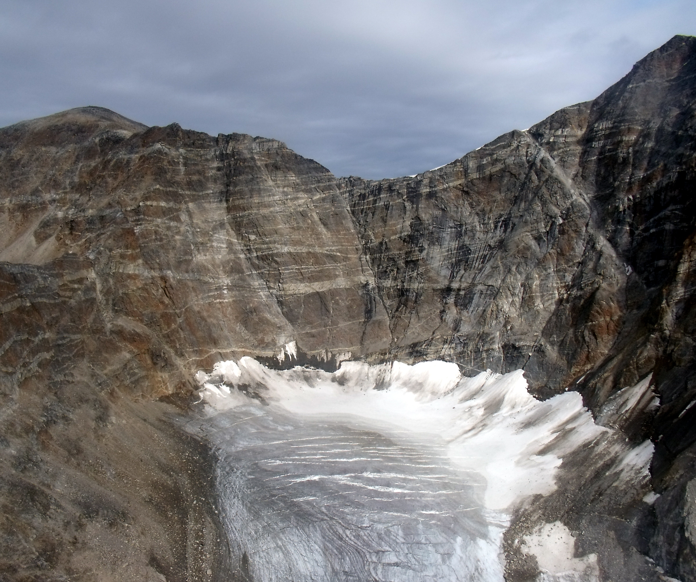 small glacier hanging in there on northeastern Baffin Island the swarm of pegmatite sills in the rock wall were injected during a prior mountain building episode or ancient continental collision way back in Proterozoic times link to a pegmatite sample in my photostream link to my ABC Geology gallery